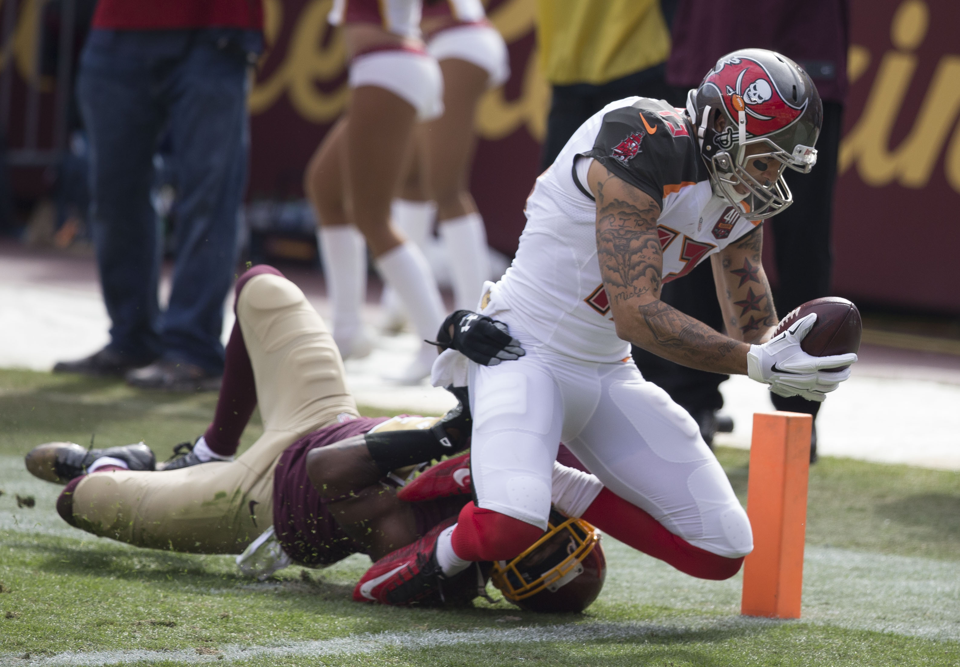 Buccaneers at Redskins 10/25/15